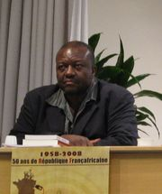 Pius Njawe